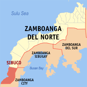 Map of the Zamboanga del Norte showing the location of Sibuco